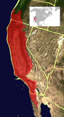 Map of the California Floristic Province - indicated in red. Based on this map.